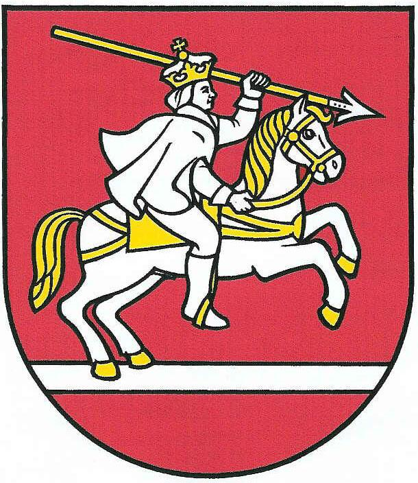 Erb